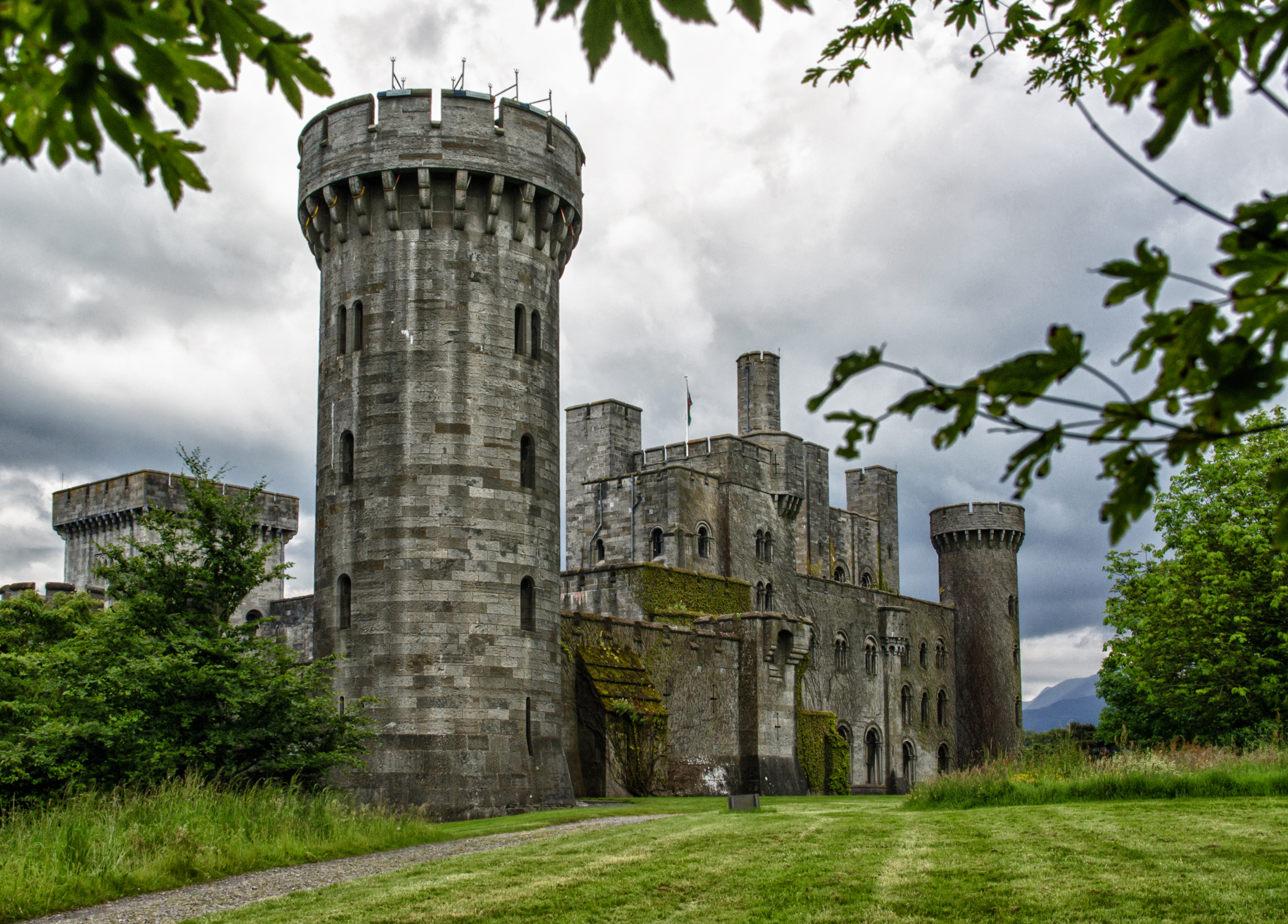 Bangor - North Wales - United Kingdom